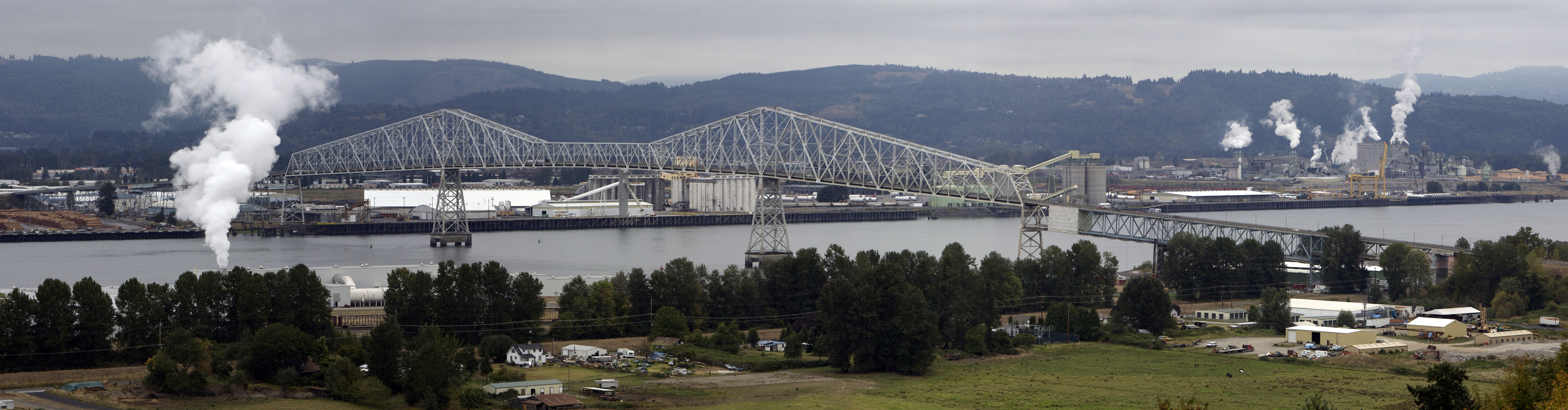 The Lewis and Clark Bridge carries Washington State Route 433 across the Columbia River at between the cities of Longview, Washington and Rainier, Oregon. Shot taken from U.S. Route 30 in Oregon looking northeast. This is a stitch of 4 exposures.